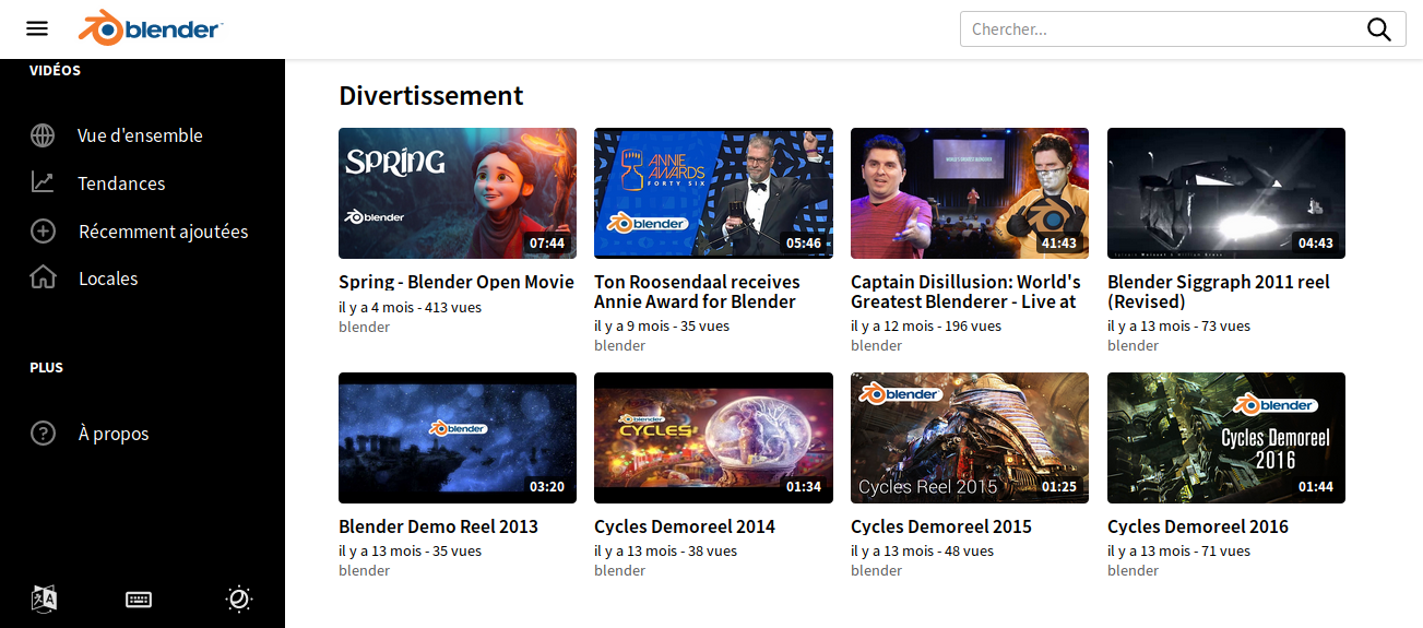 Screenshot of Blender's Peertube instance (contains only videos under Creative Commons BY).